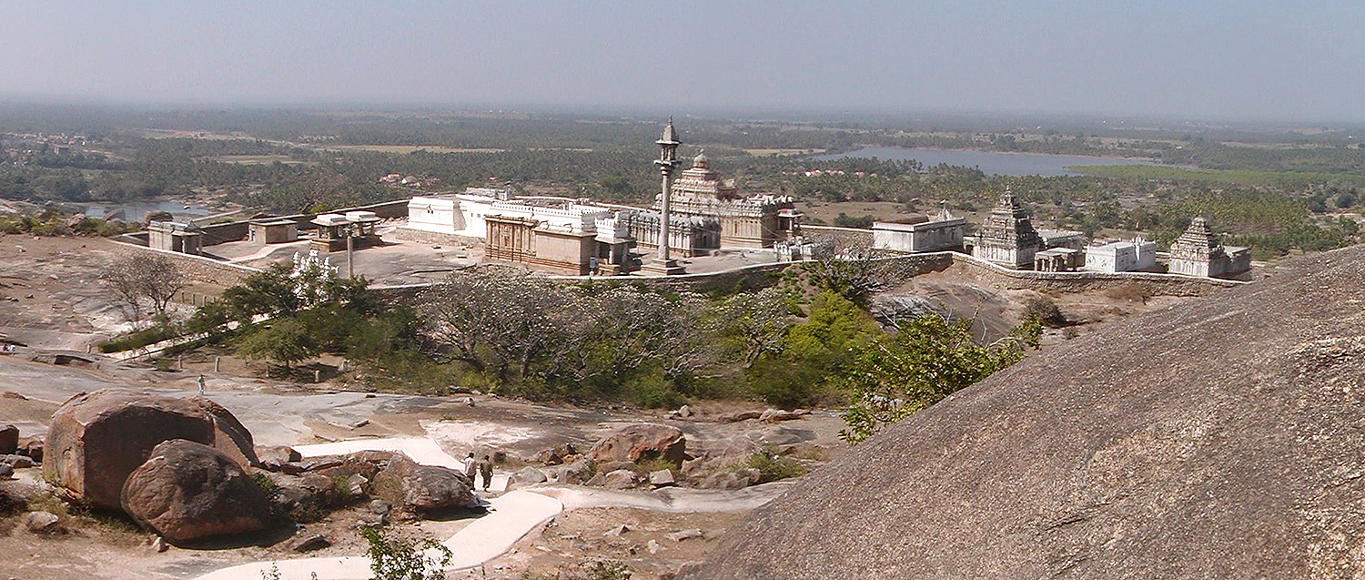 Photo taken by self(panoramic composition using software). Olympus UltraZoom. Dated:Feb'06 Temple Complex on Chandragiri hill at Shravanabelagola, Karnataka, India. --User:Nikhil VarmaNikhil Varma 19:17, 21 April 2007 (UTC) Summary Photo taken by self(panoramic composition using software). Olympus UltraZoom. Dated:Feb'06 Temple Complex on Chandragiri hill at Shravanabelagola, Karnataka, India. --Nikhil Varma 19:17, 21 April 2007 (UTC)